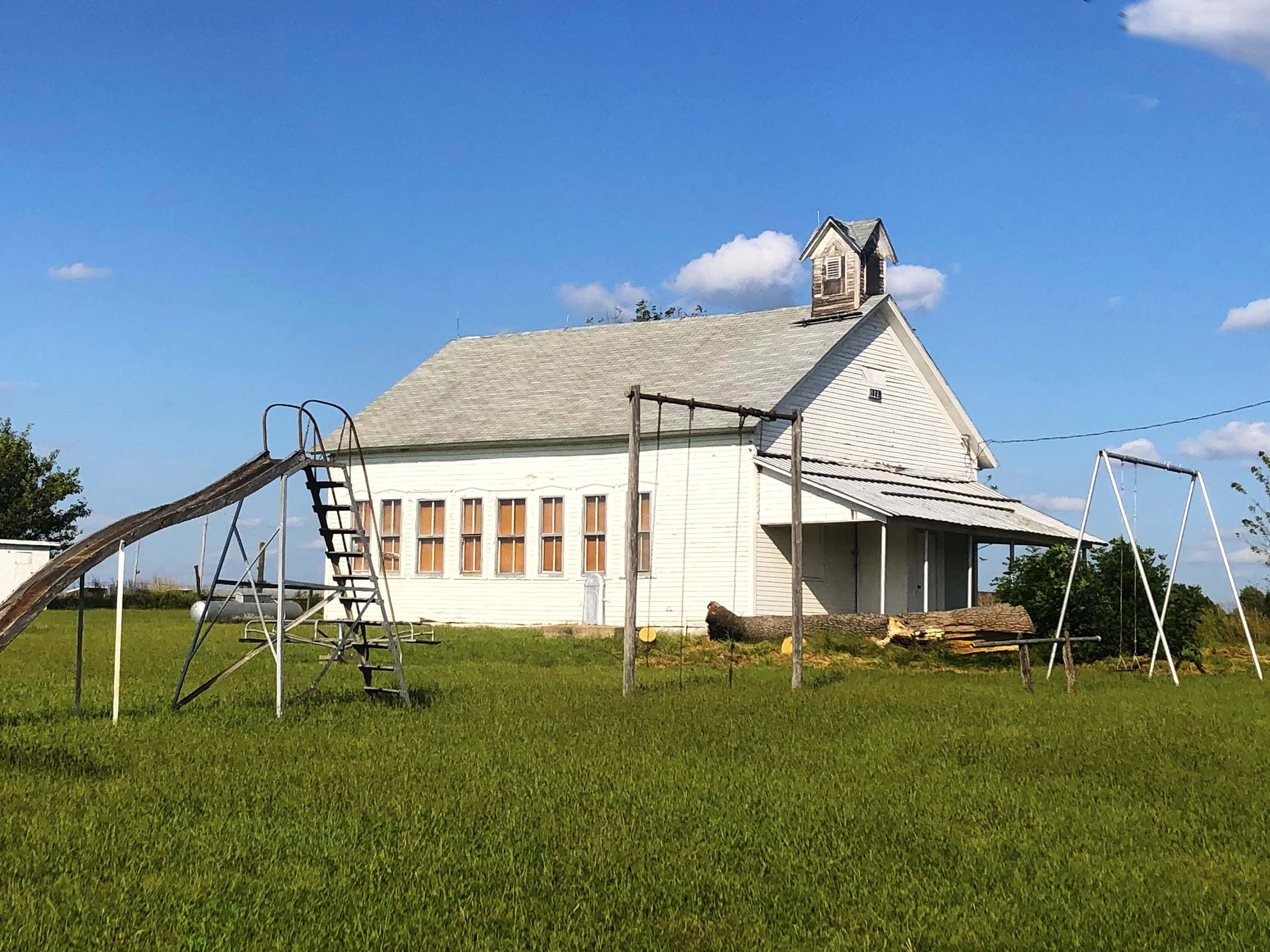 One-room schoolhouse, Plymouth, Kansas